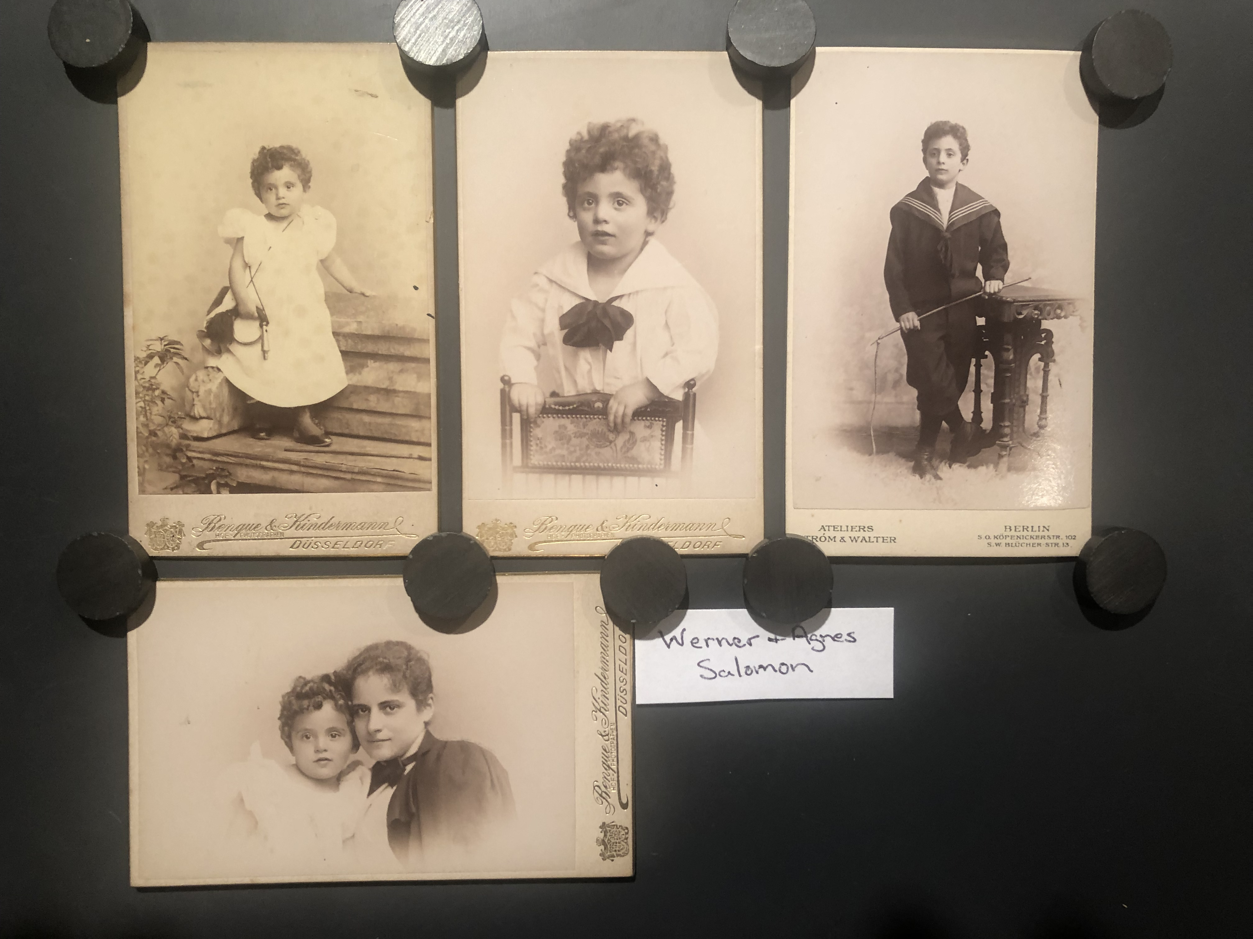 Werner Salomon (1893-1916) as a child